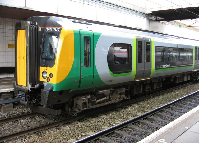 London Midland 350104 at Coventry railway station